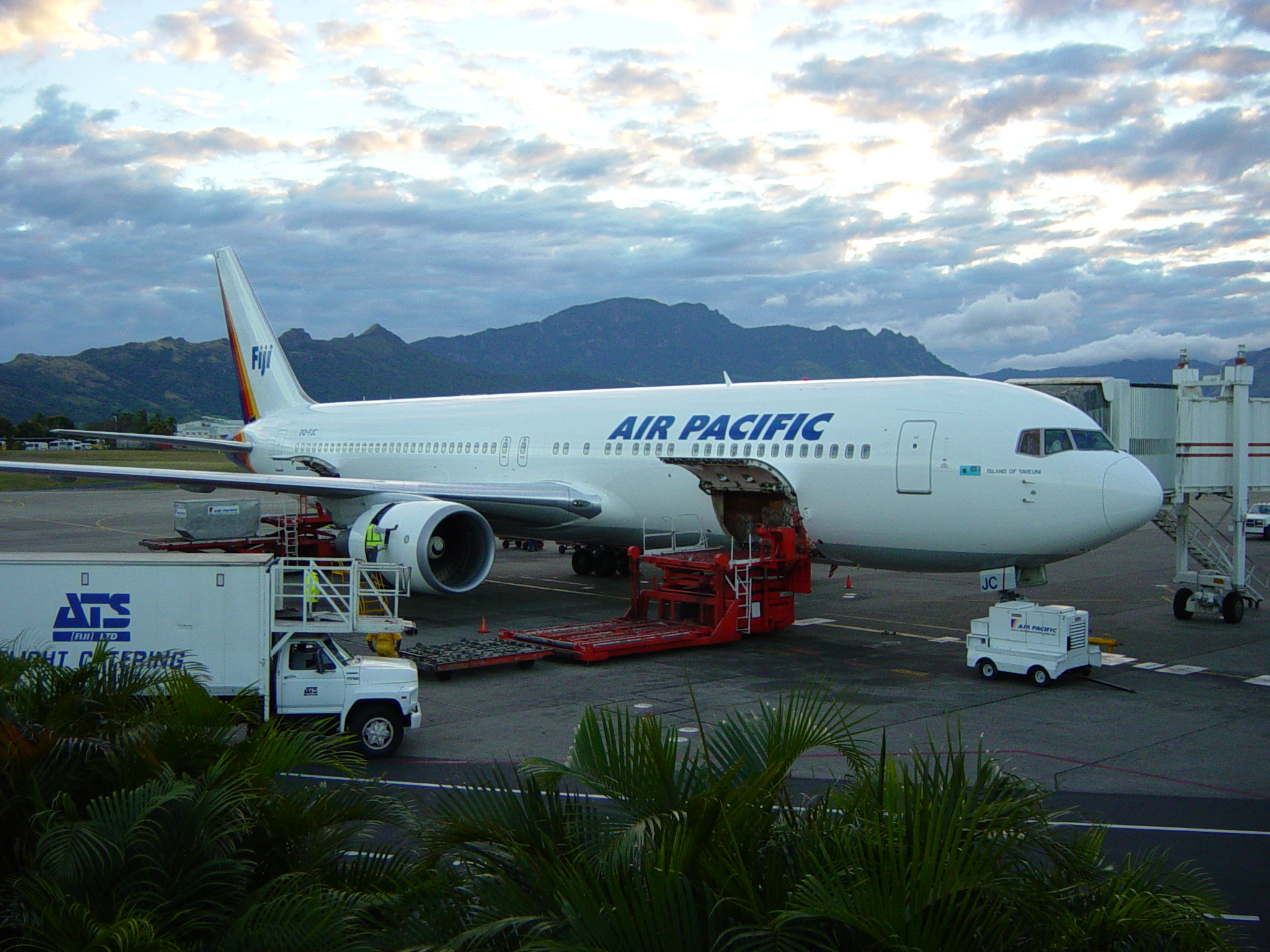 An Air Pacific Boeing 767-300 ER (Registration DQ-FJC, "Island of Taveuni") in the early morning at Nadi Airport, July 2003.